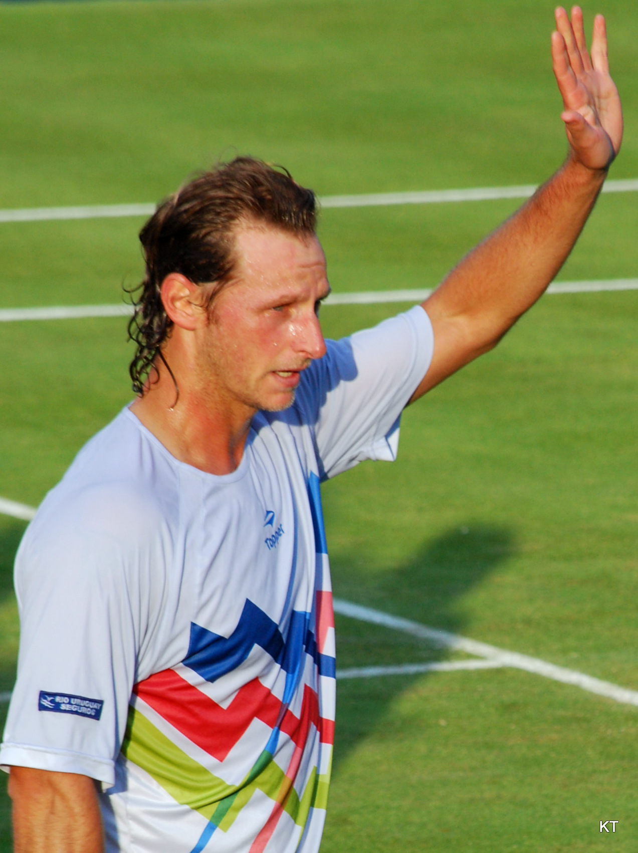 David Nalbandian wins his 2nd round match with Ruben Bemelmans. Aegon Championships, Queen's Club, 2012.